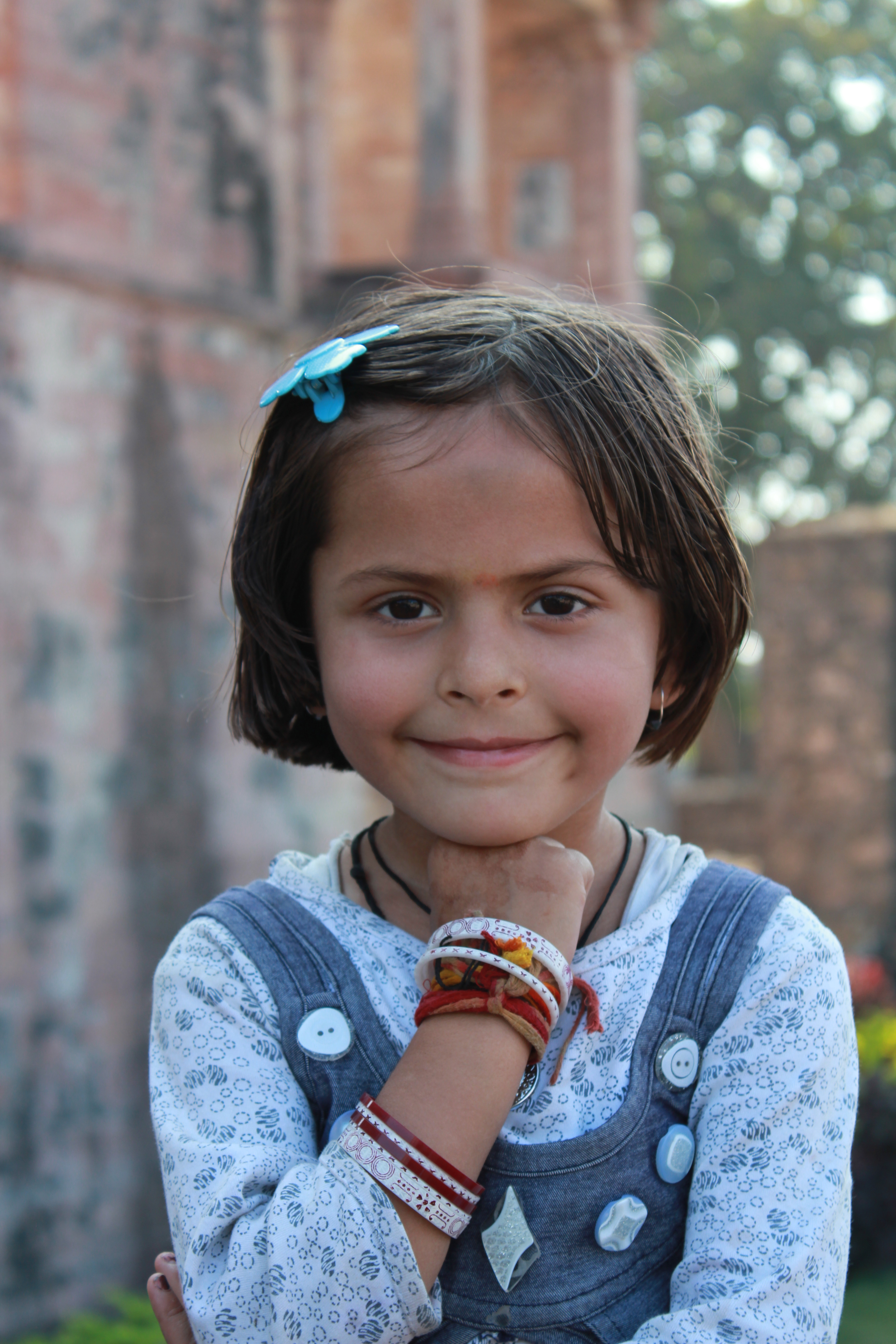 Mandu, Royal Enclave, Hindola Mahal Faces, dress, culture of India Girls in India 2013